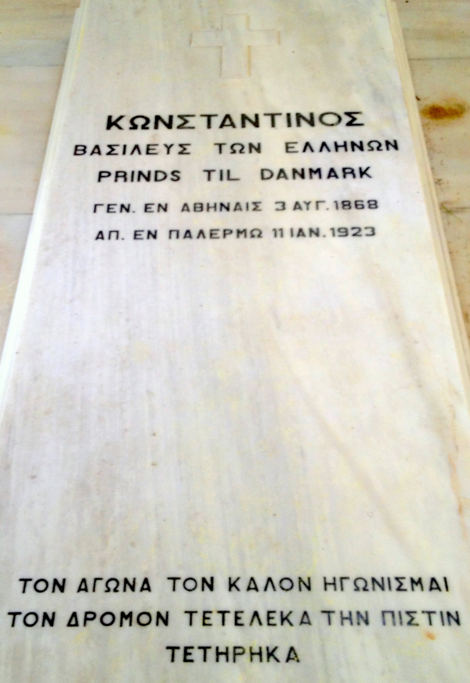 Tomb of Constantine I of Greece